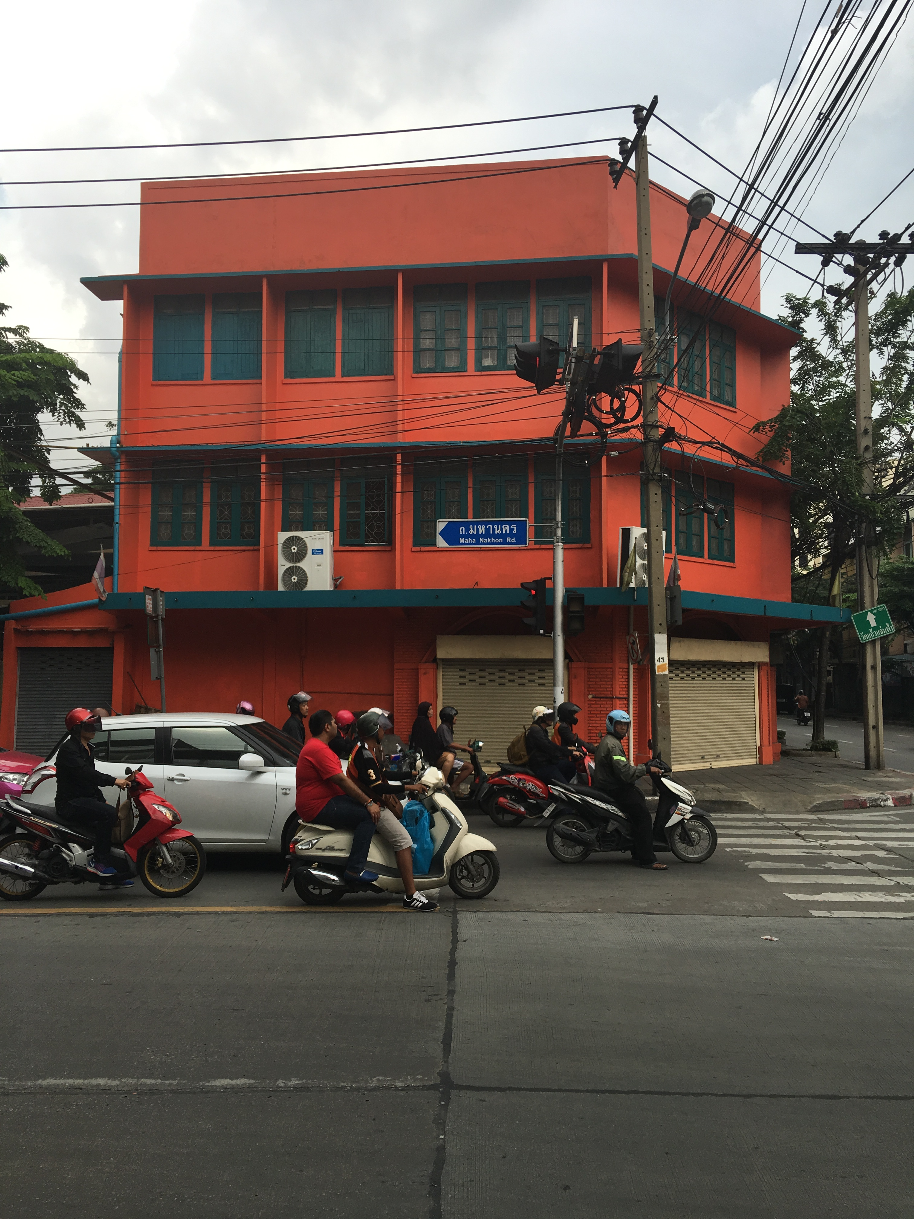 Image from the junction of Si Phraya Road, and Maha Nakhon Road. Bangkok